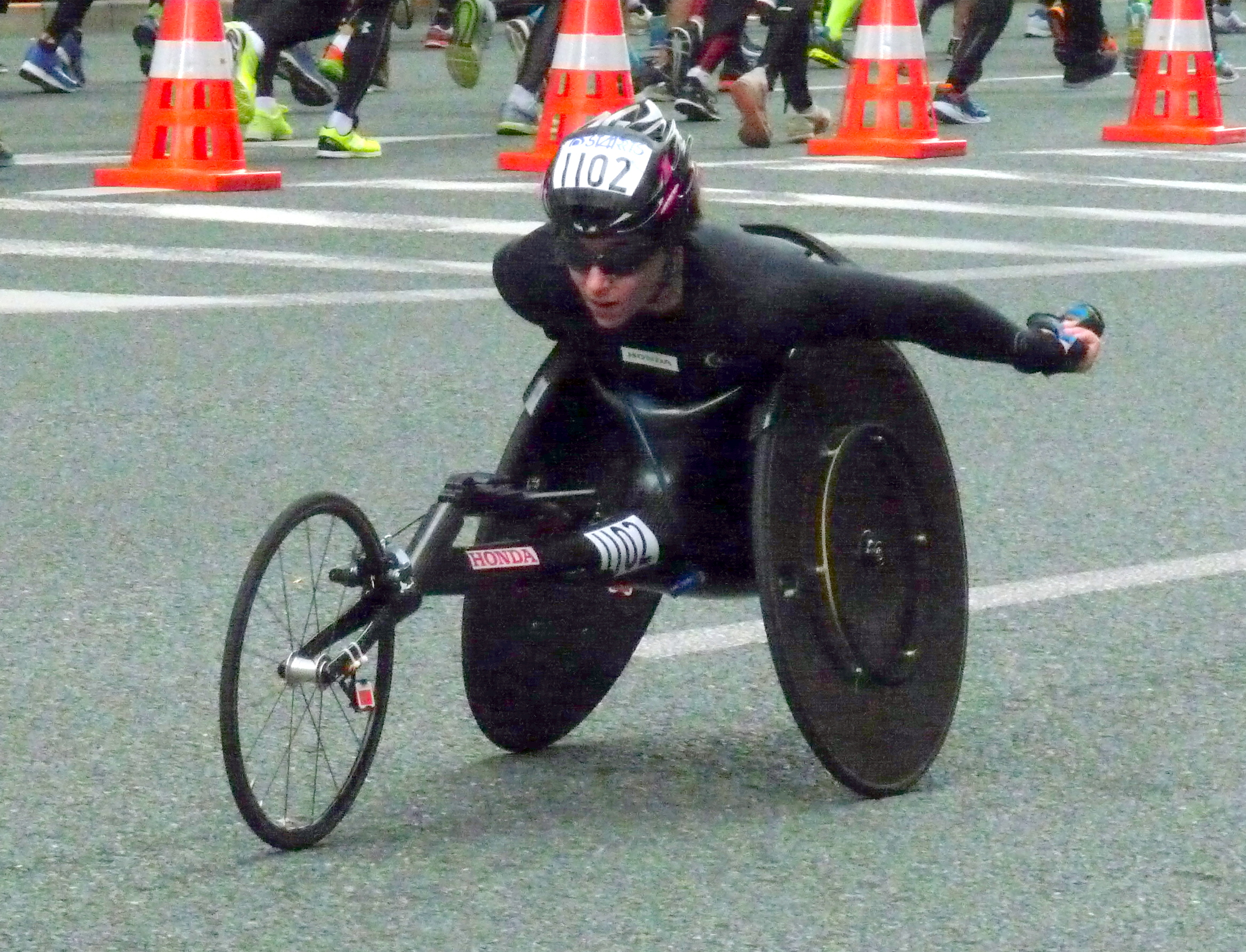 Tokyo Marathon 2018 racer 1102 Amanda McGrory